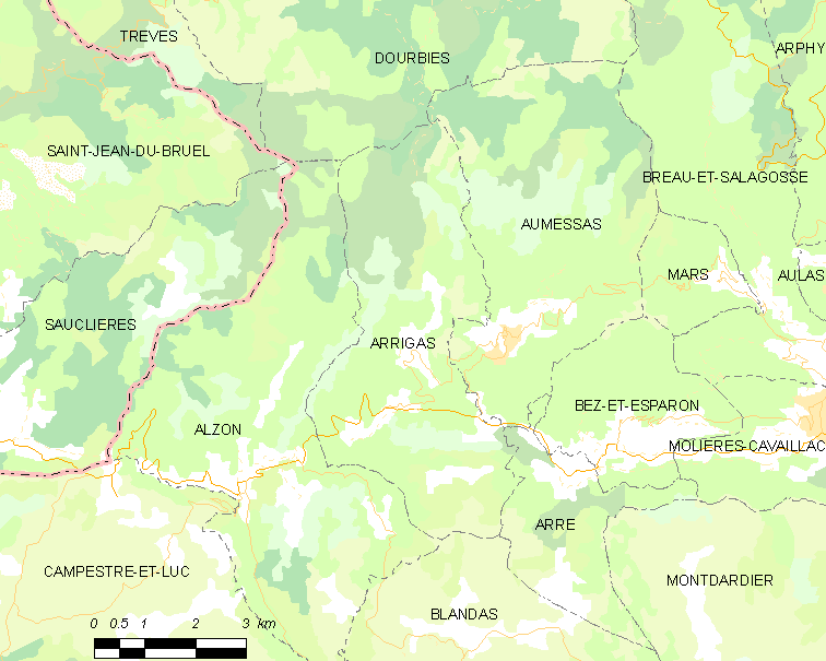 Map commune FR insee code 30017.png - Arrigas